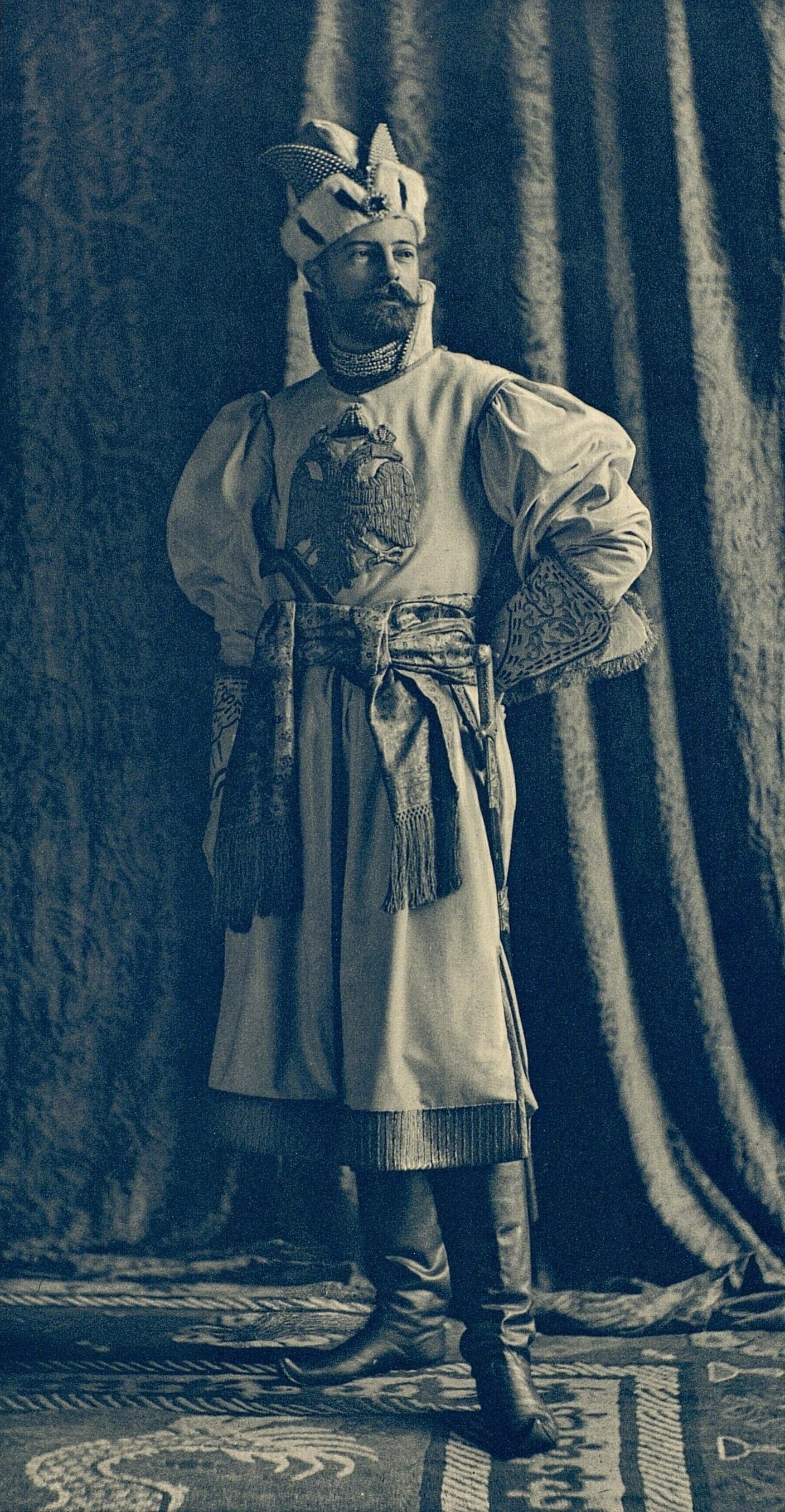 Grand Duke Alexander Mikhailovich